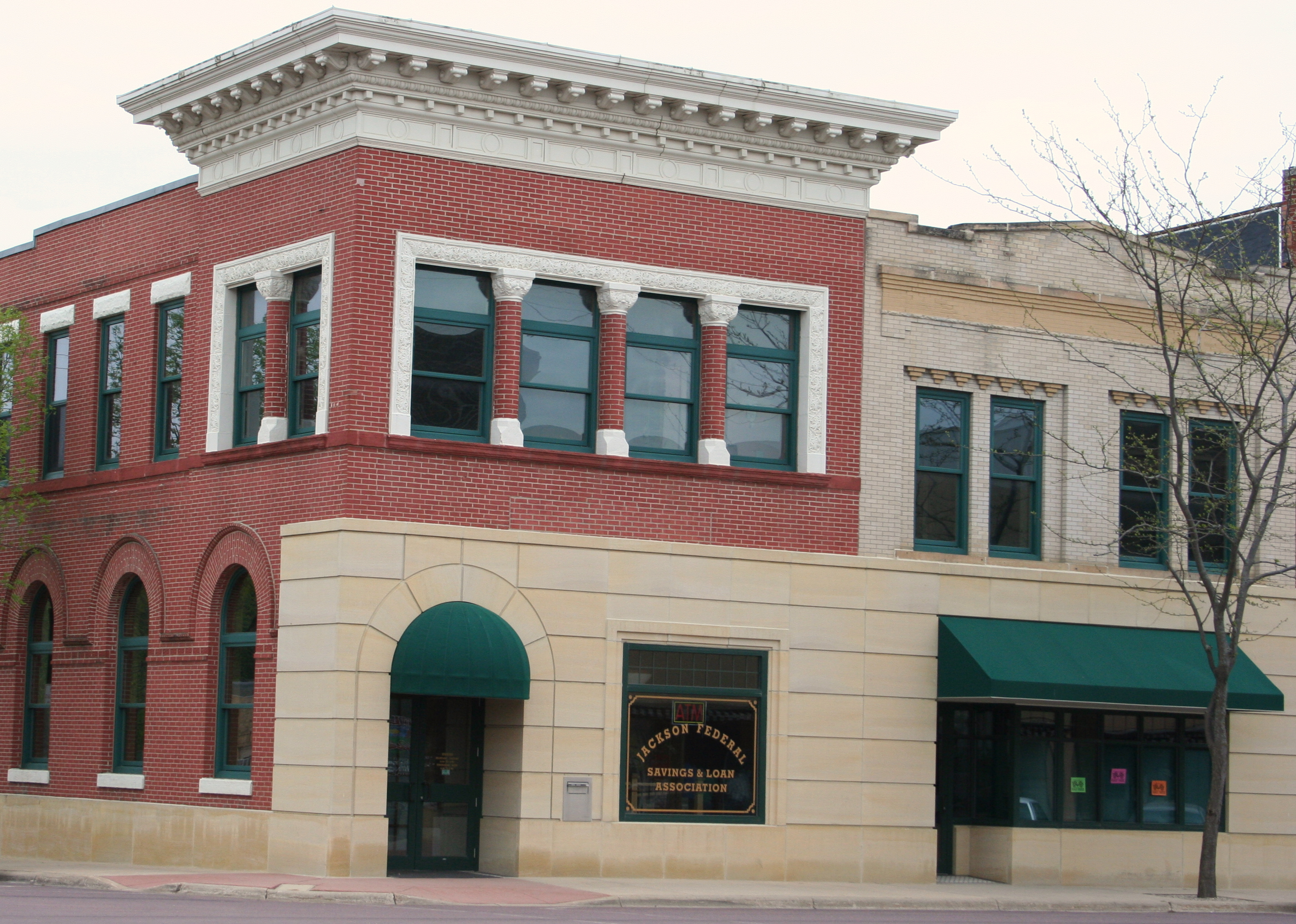 Jackson Federal Savings & Loan Building on Main and Ashley Streets, part of the Commercial Historic District, in Jackson, Minnesota